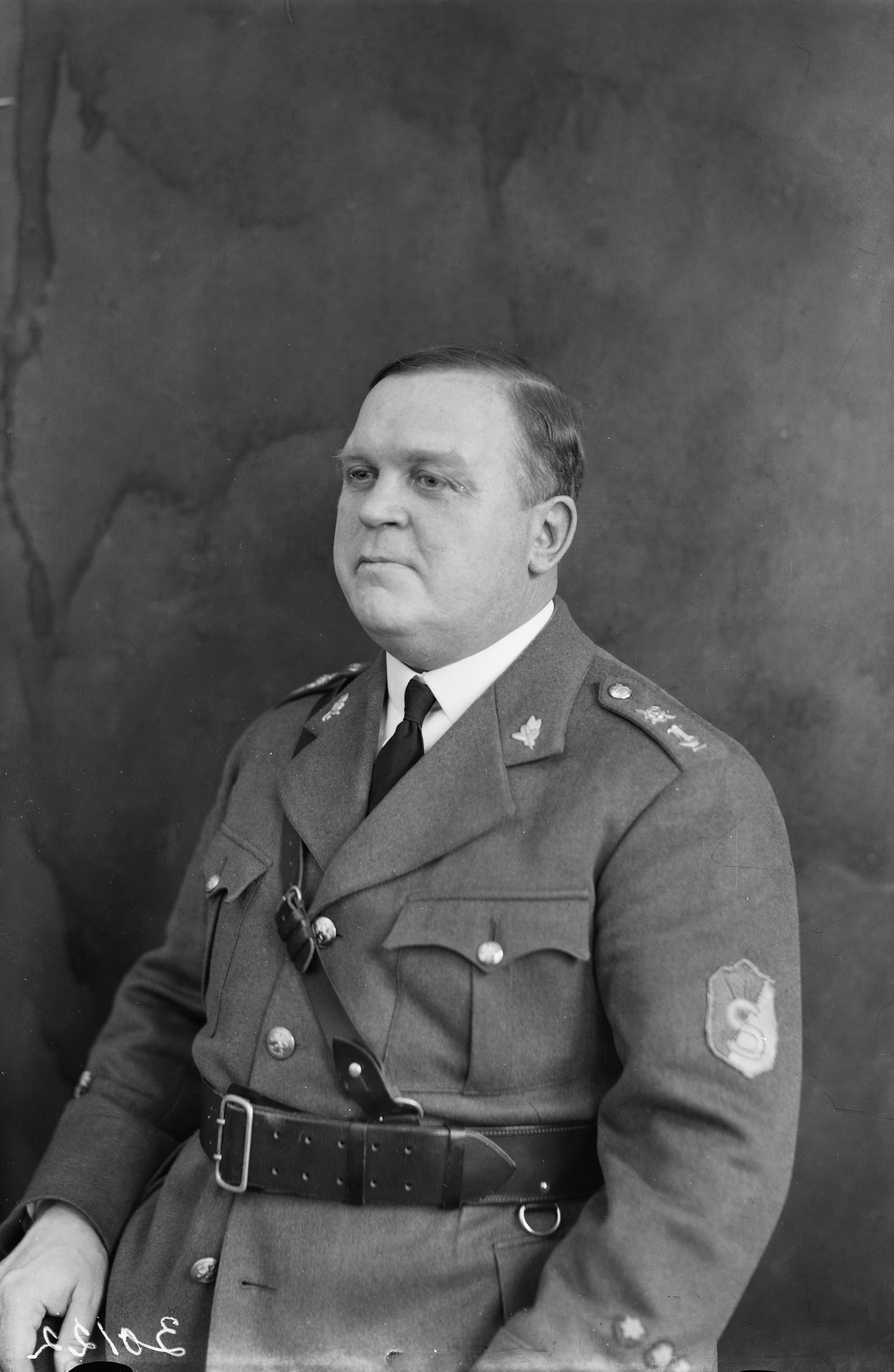 Photograph of the Estonian-Finnish orchestral conductor, musician and composer Hannes Konno (1892–1942).